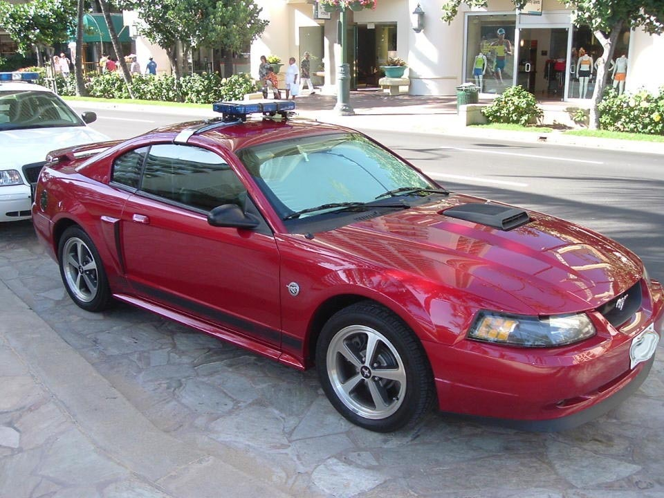 A "New Edge" Mach 1 Mustang being used as a cop car by the Honolulu Police Department. Taken by me in Waikīkī while on vacation. This specific patrol car is considered a police interceptor. With a beefed up motor and exaust it is capable of keeping up with today fast cars.